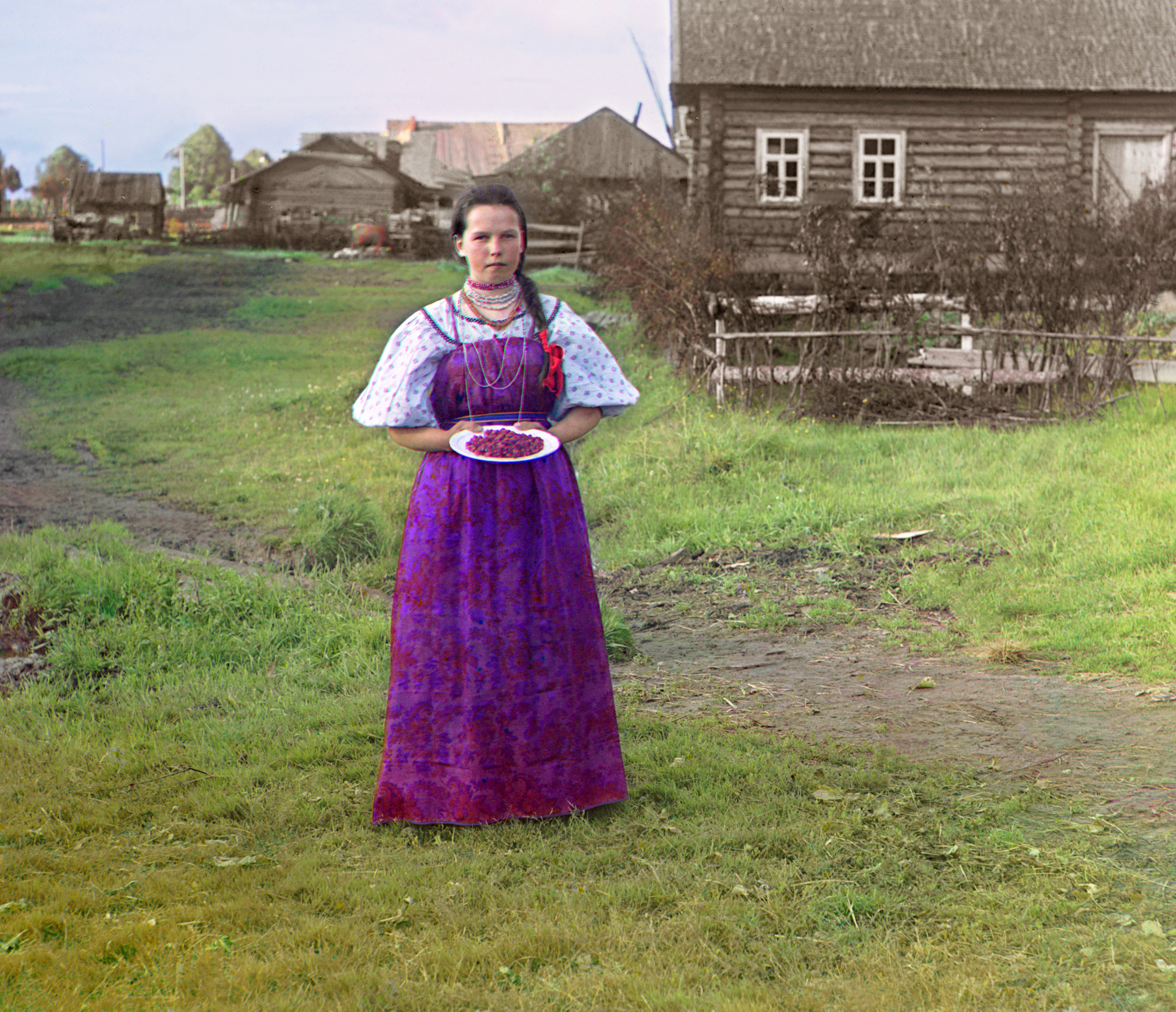 Girl with strawberries in Governorate Vologda. TITLE: Dievushka s zemlianikoi. [Rossiiskaia imperiia] TITLE TRANSLATION: Girl with strawberries. [Russian Empire]